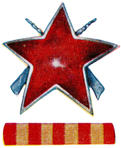 Order of partisan star with rifles